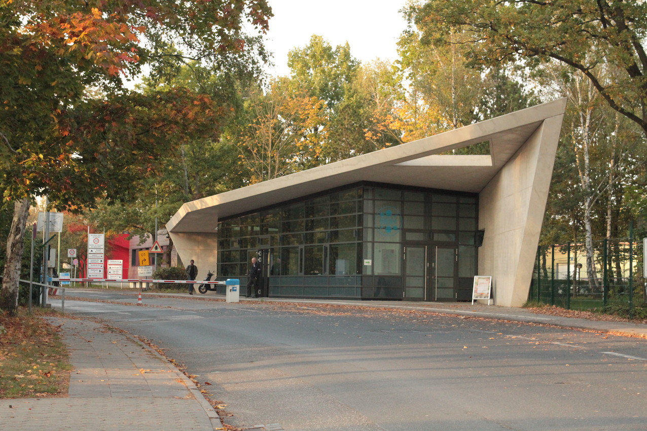 Main entrance of the campus of Deutsches Elektronen-Synchrotron in Hamburg.